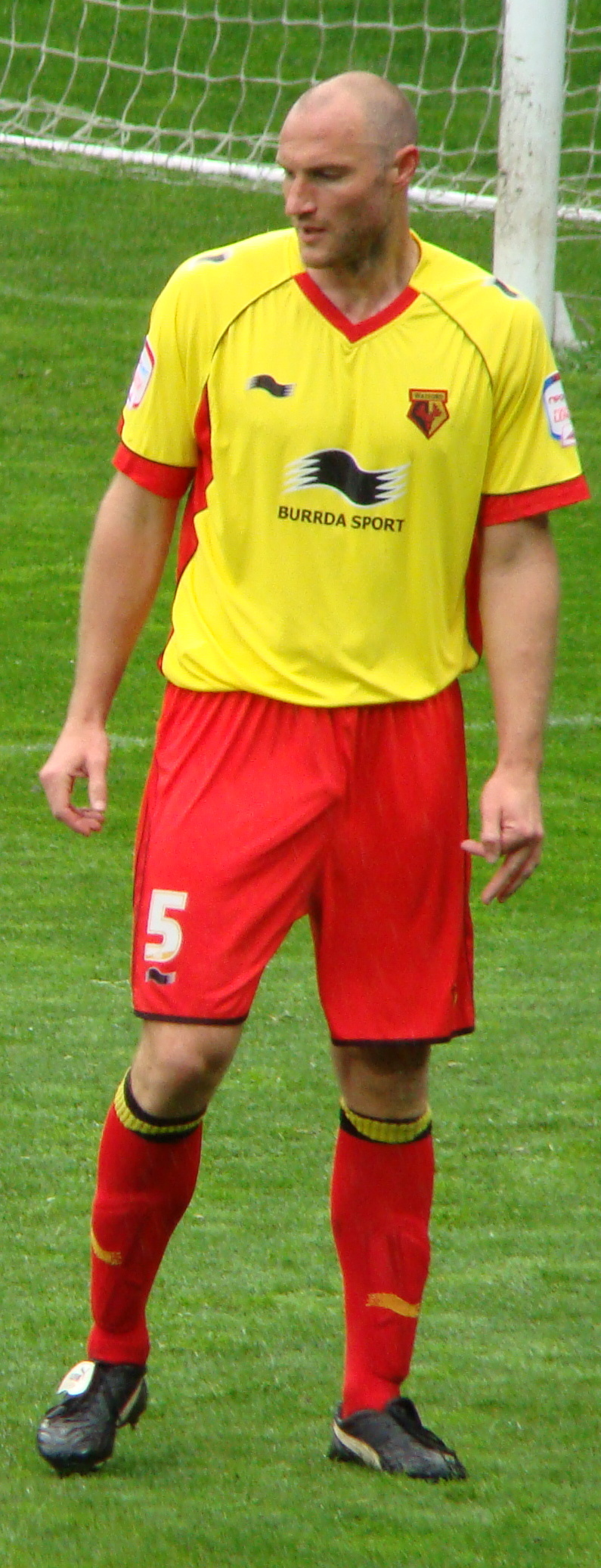 09/04/12 Cardiff v Watford, Championship, Cardiff City Stadium, Cardiff, Wales